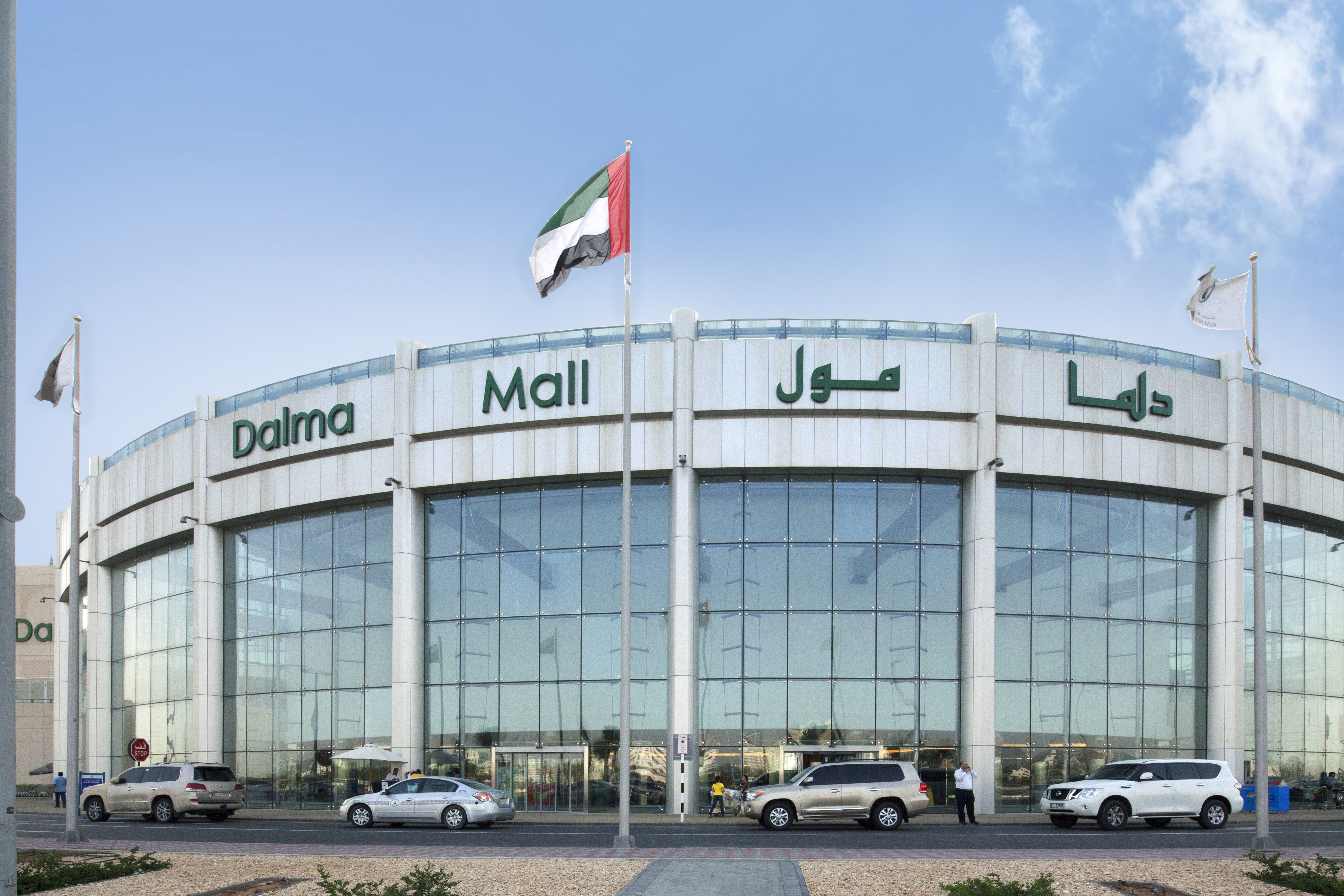 Dalma Mall exterior taken April 2014